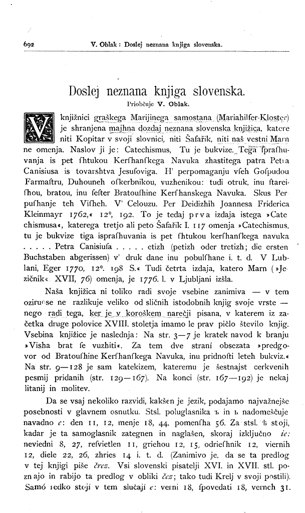 Oblak, Vatroslav. Doslej neznana knjiga slovenska. 1887, Ljubljanski zvon